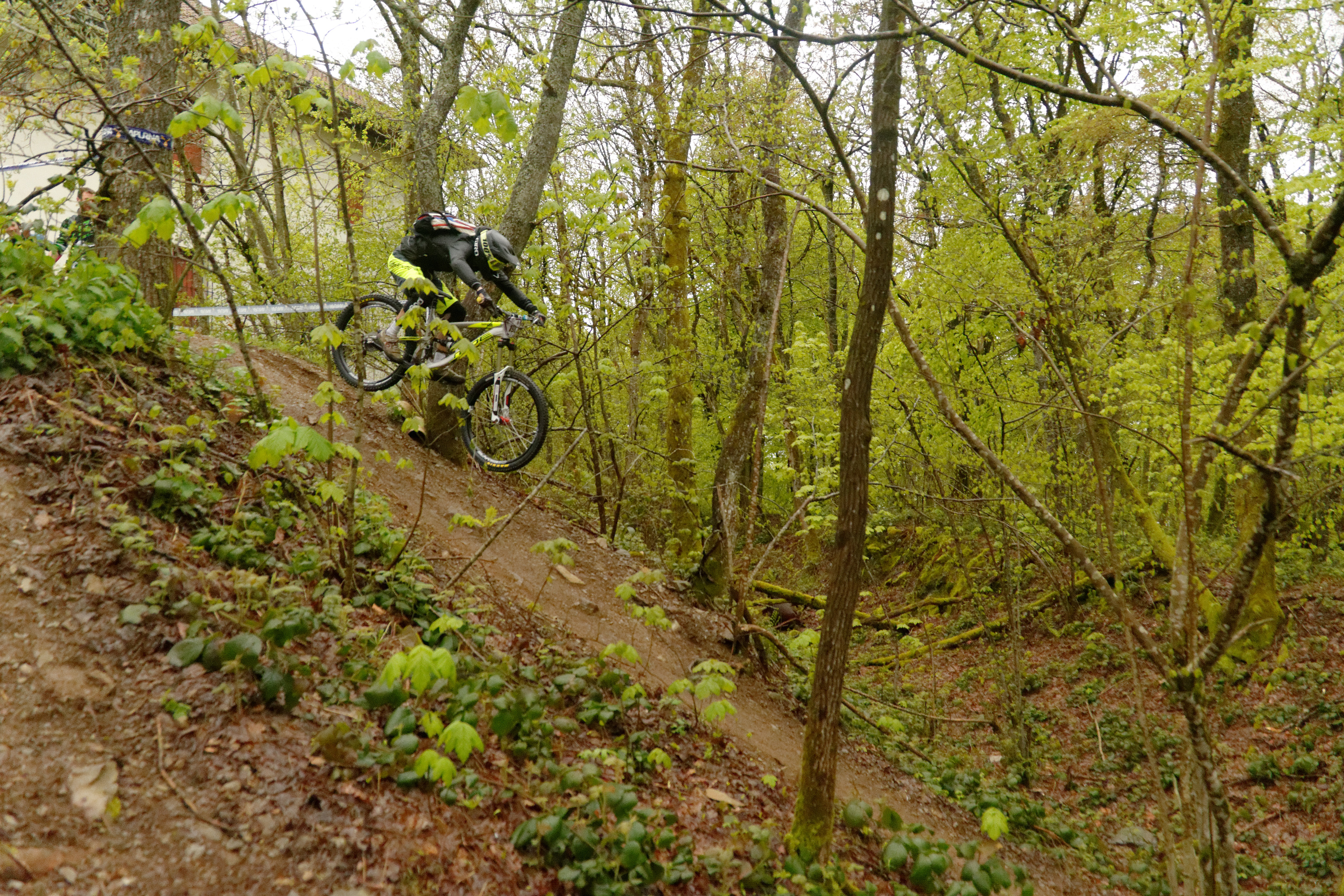 Personality rights warningAlthough this work is freely licensed or in the public domain, the person(s) shown may have rights that legally restrict certain re-uses unless those depicted consent to such uses. In these cases, a model release or other evidence of consent could protect you from infringement claims.